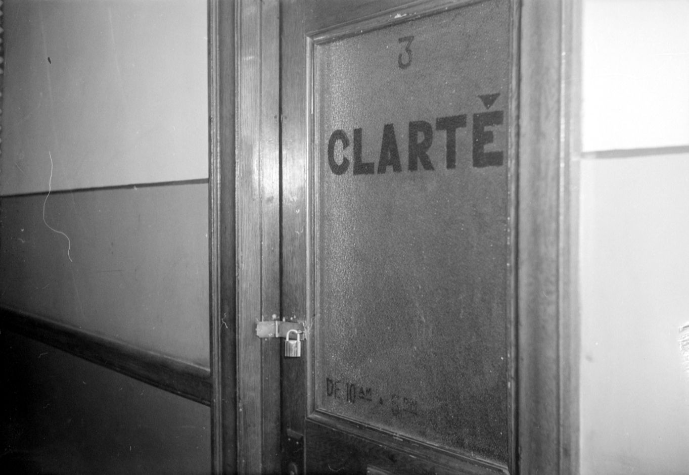 The doorway of the newspaper "La Clarte", a weekly communist newspaper, padlocked by the police in Montreal, Quebec, Canada. The Padlock Law (officially called "Act to protect the Province Against Communistic Propaganda") was an Act of the province of Quebec, passed on March 24, 1937 by the Union Nationale government of Maurice Duplessis, that was intended to prevent the dissemination of communist propaganda.